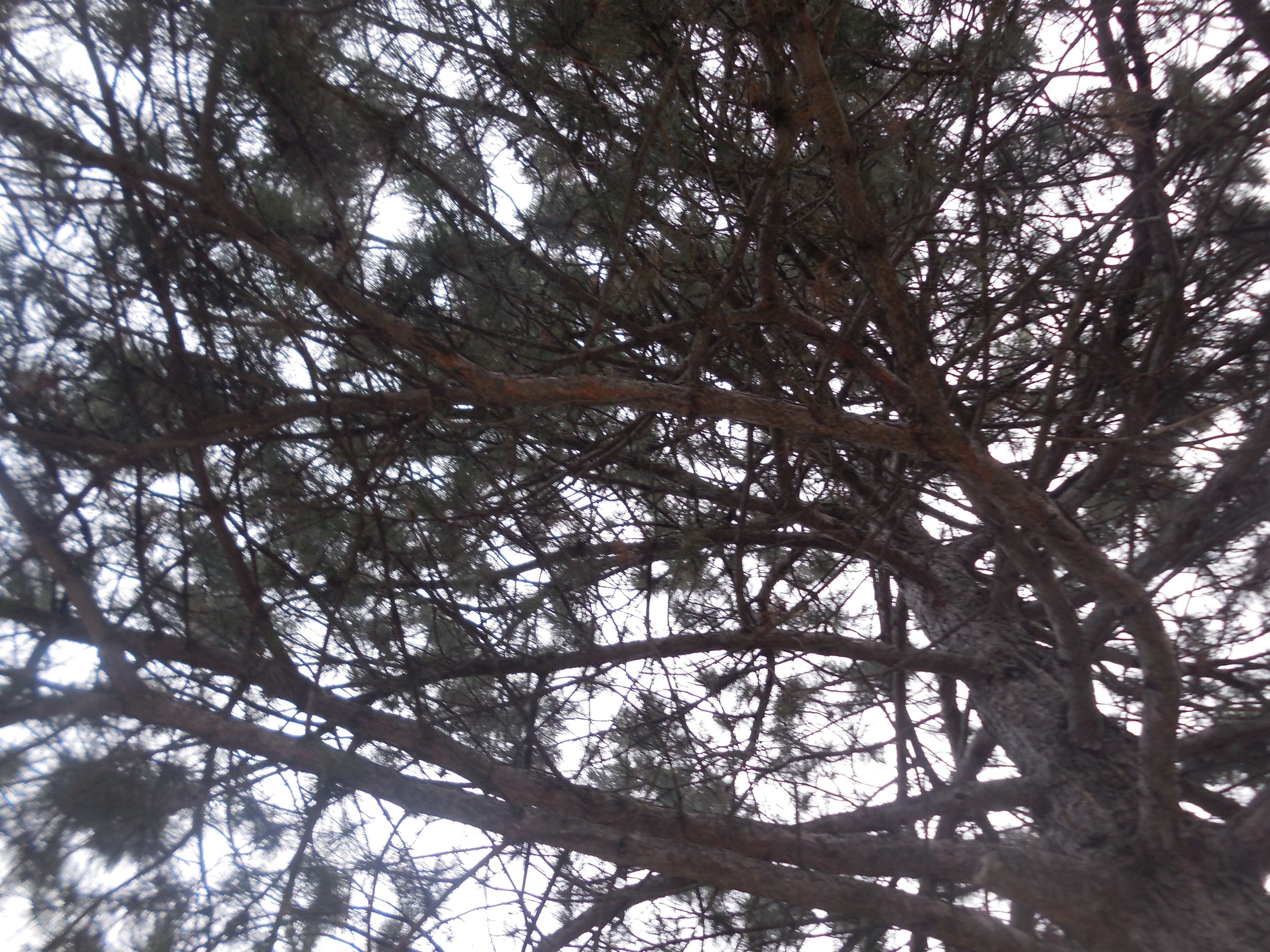 A summer tree